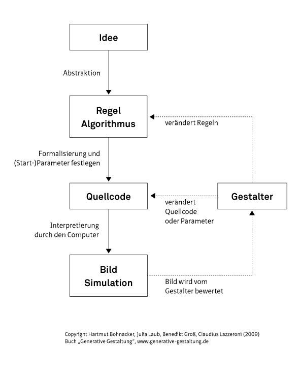 Process for creating generative design